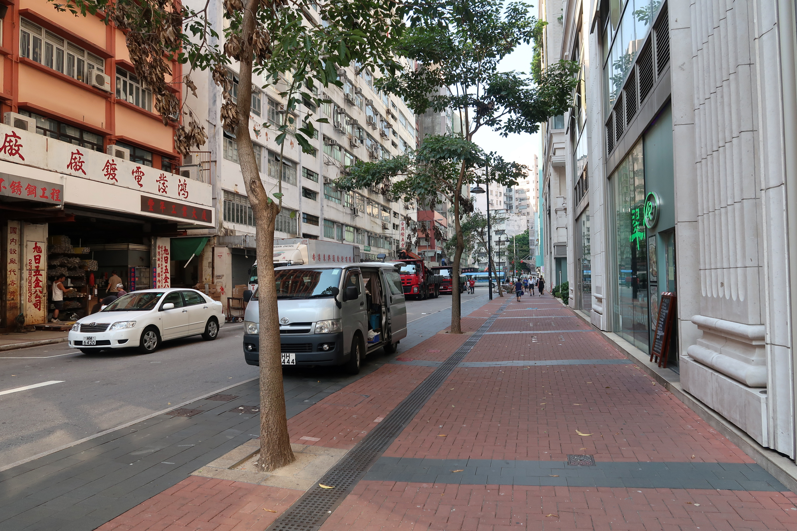 Beech Street near Park Summit